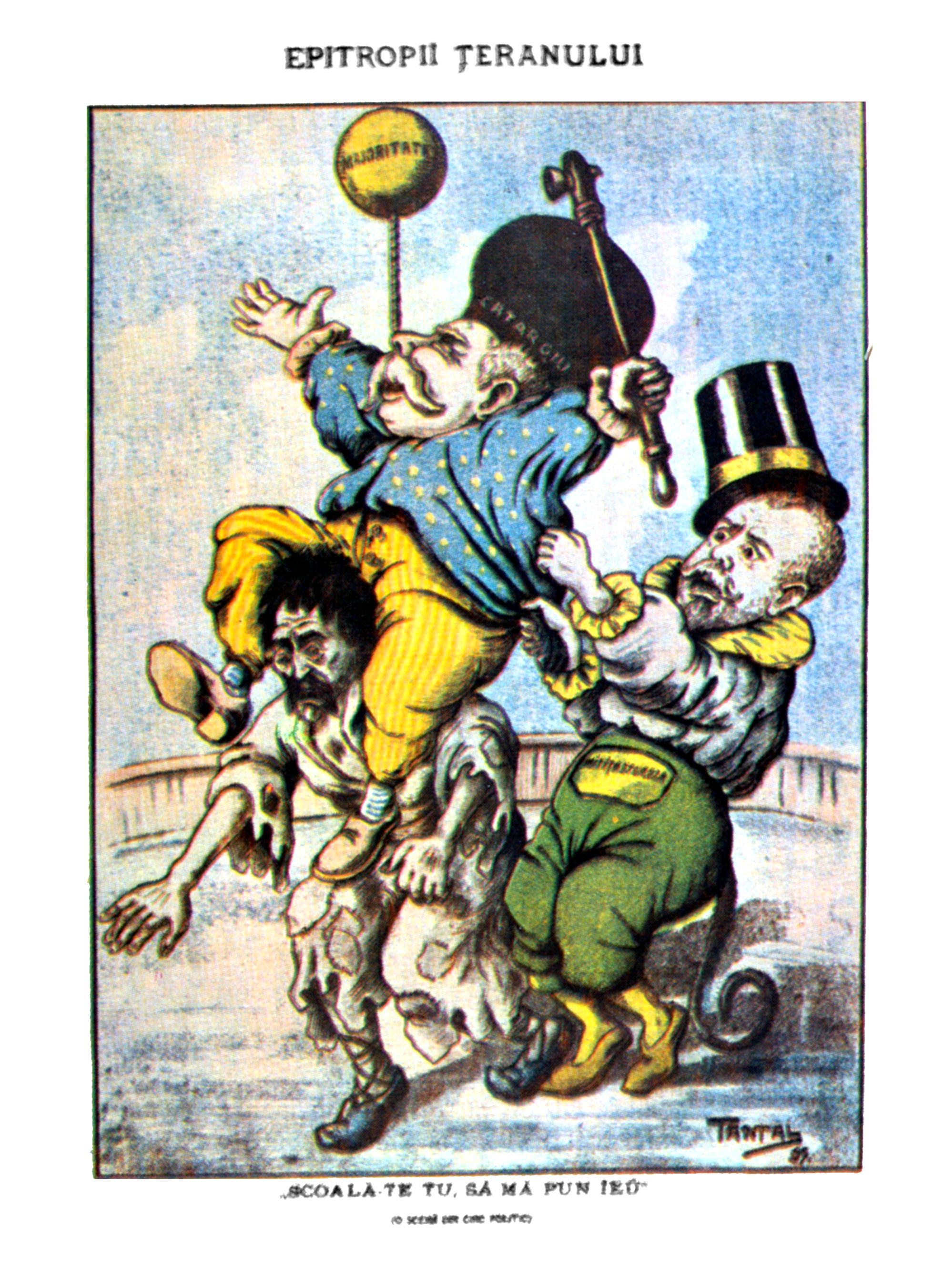 Romanian electoral cartoon entitled "The trustees of the peasant". The figure sitting on a skinny, ragged Romanian peasant is Lascăr Catargiu (Conservative Party), dressed in traditional aristocratic (boyar) clothes. Behind him, a globe with the word "Majority". On the right, Ion Brătianu (Liberal Party) in modern, "German" clothes is dragging Catargiu down, saying: "Get down, so I can climb up!". The implication is that the political fight between the two major parties in late 19th century Romania is without benefit for the Romanian peasant, who remains poor and burdened.